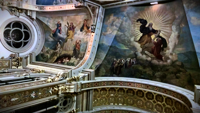 Photo taken on Monday,10/15/2012, at Holy Trinity Church in Chicago, IL, USA.